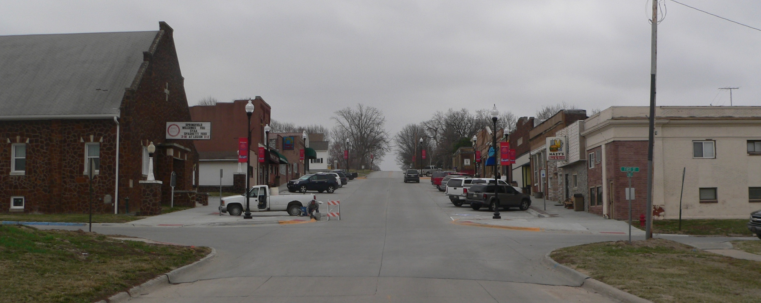 Downtown Springfield, Nebraska: looking generally eastward along Main Street from about First Street.